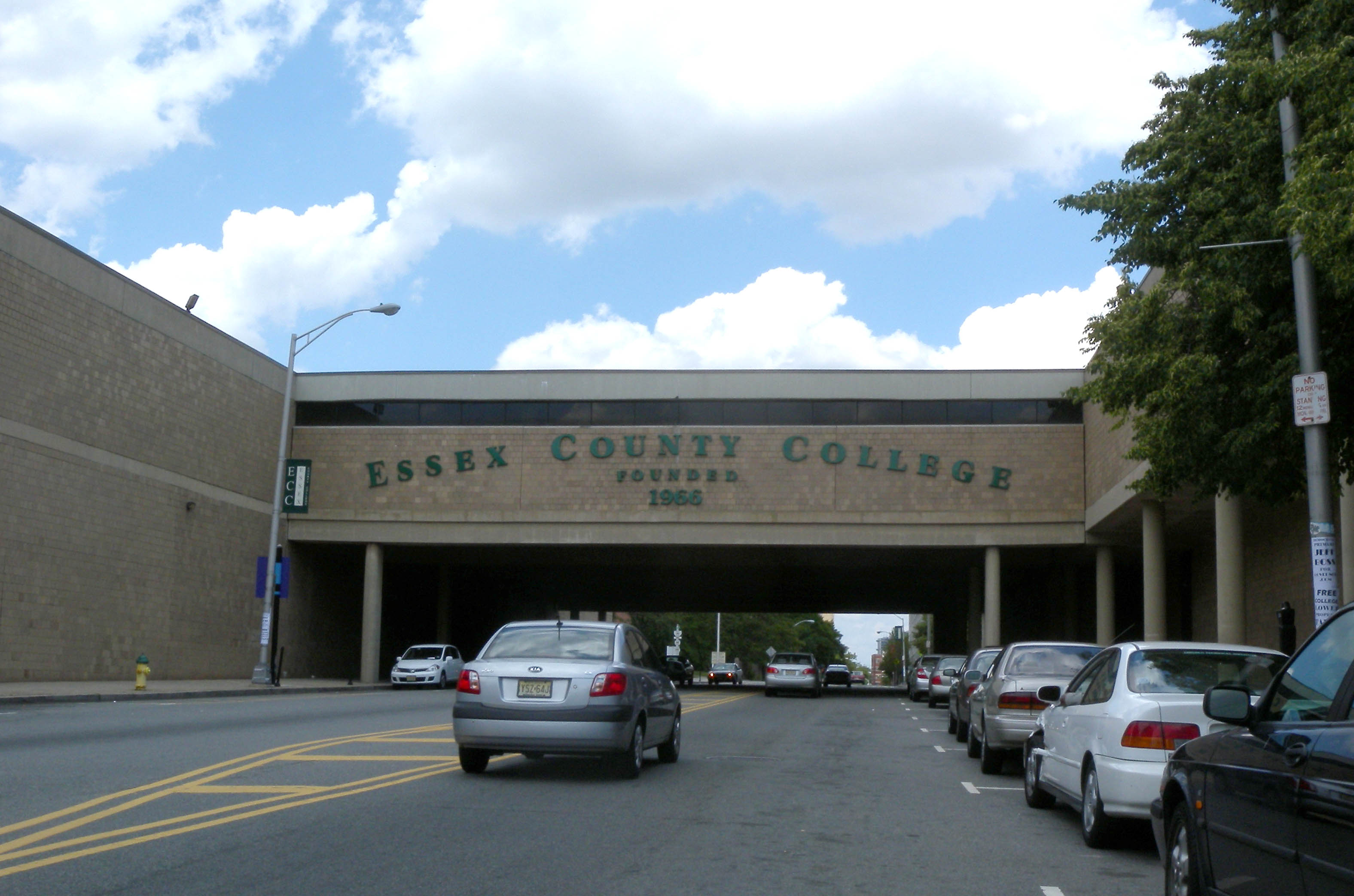 Looking north and up at Essex County College while pedalling up the hill from Market Street when a cloud passed over, on a mostly sunny afternoon.